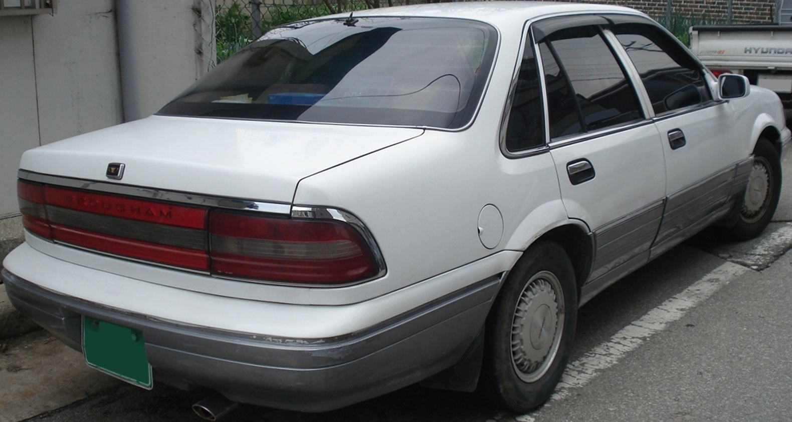 Daewoo Brougham